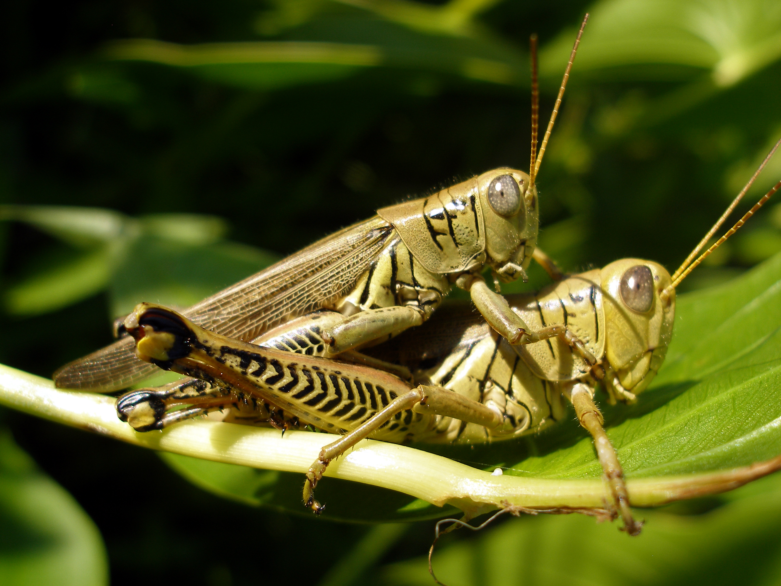 Differential grasshoppers (Melanoplus differentialis) copulating at Mount Gilead State Park in Mount Gilead, Ohio, USA.